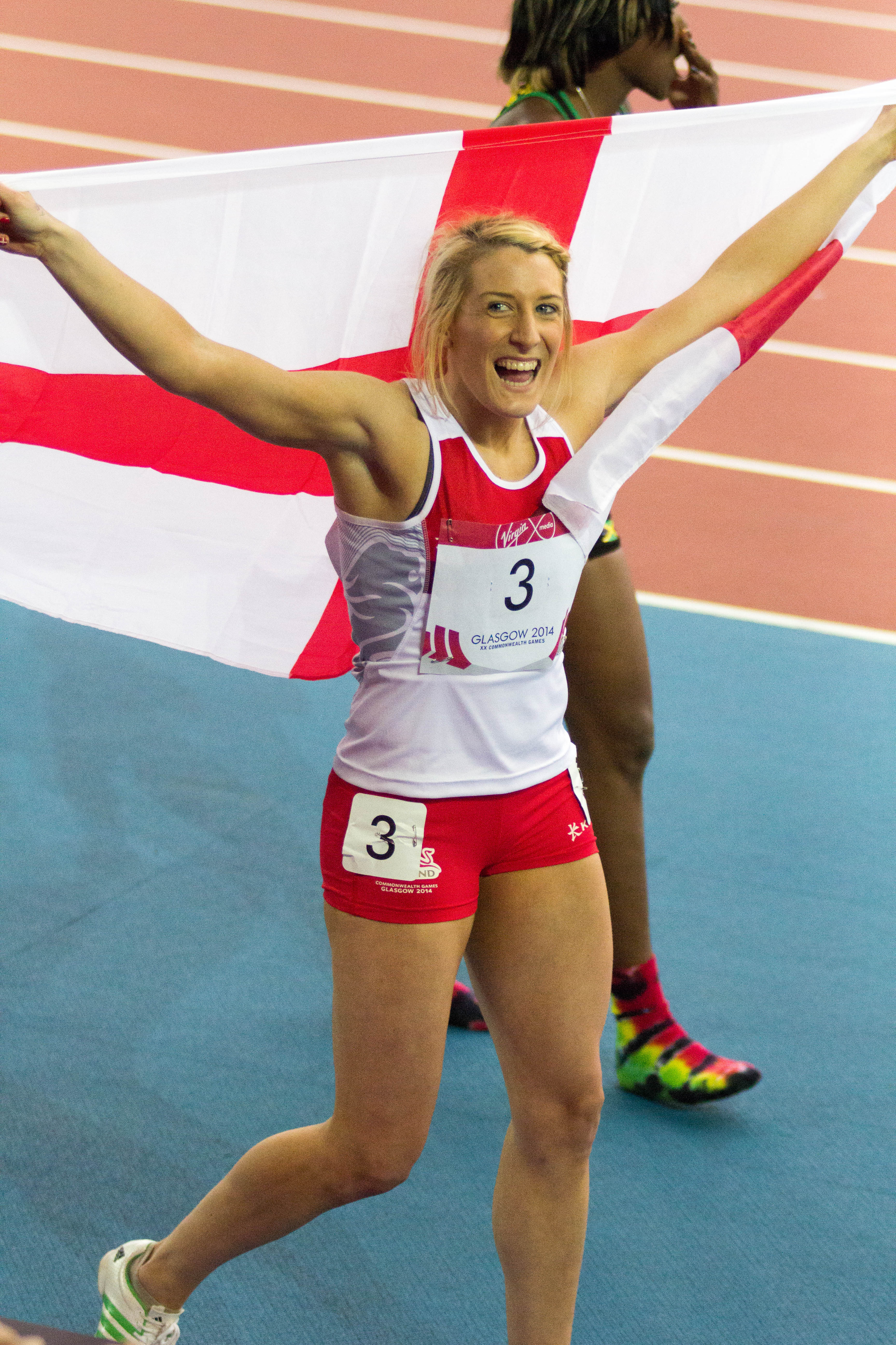 Commonwealth Games 2014 - Athletics Day 4 2014 Commonwealth Games Day 4: Athletics